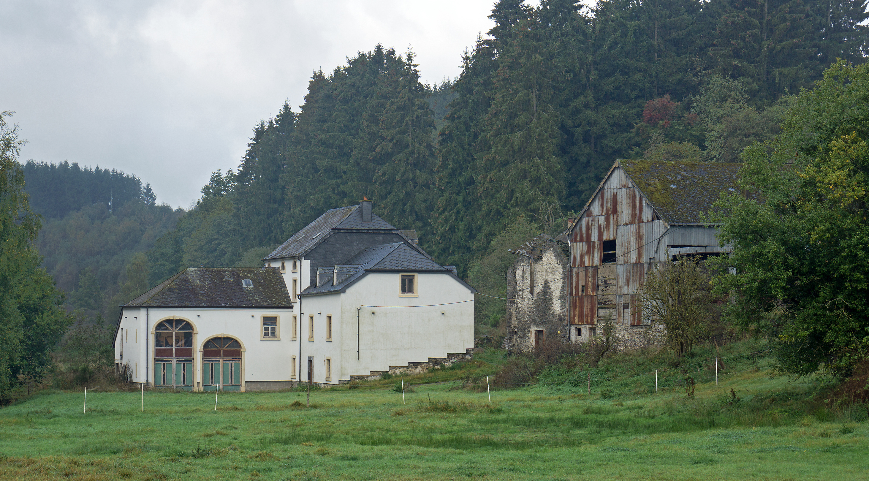 Neimillen near Hoffelt